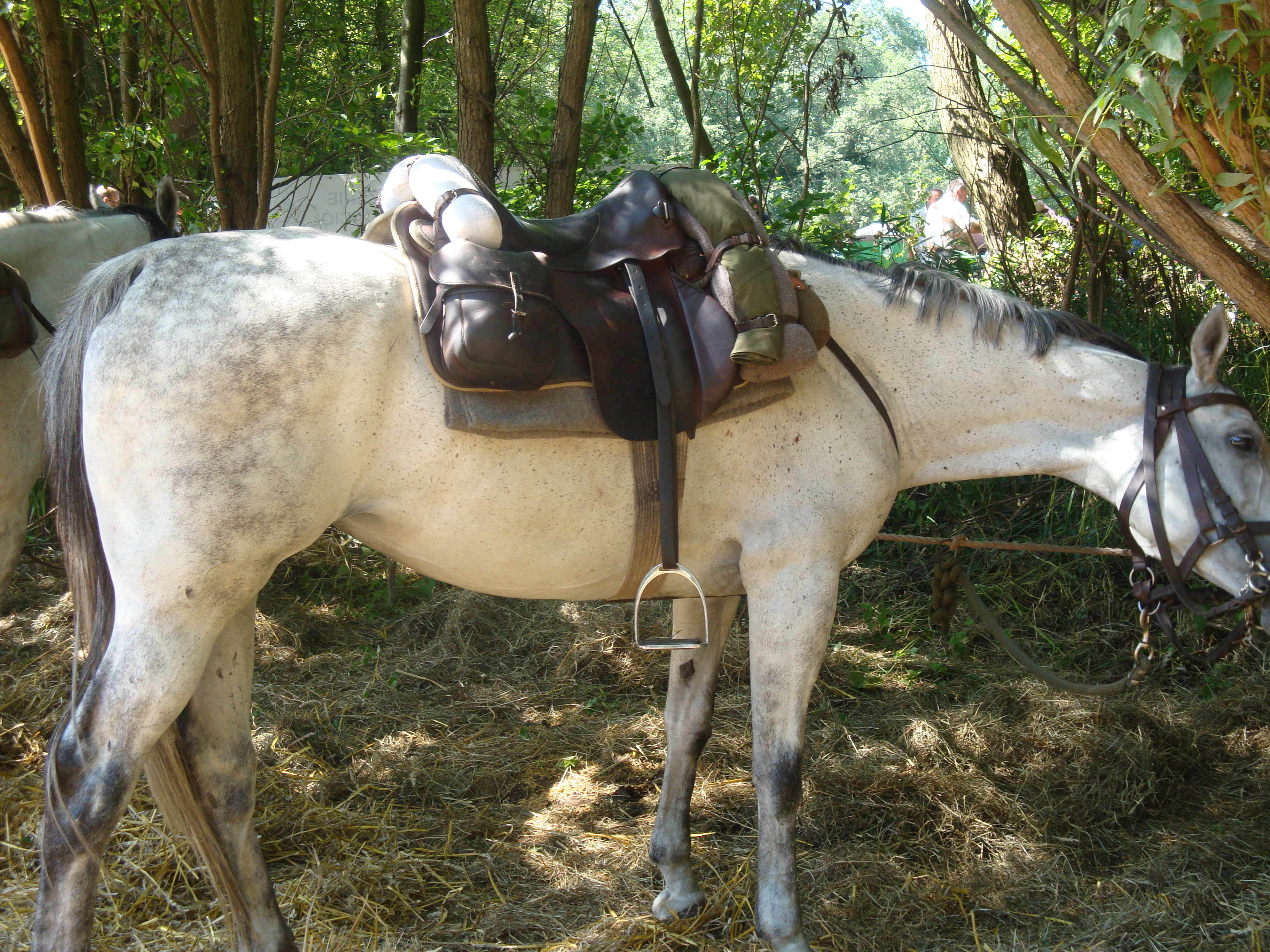 Uhlan horse saddled (Reenactment)